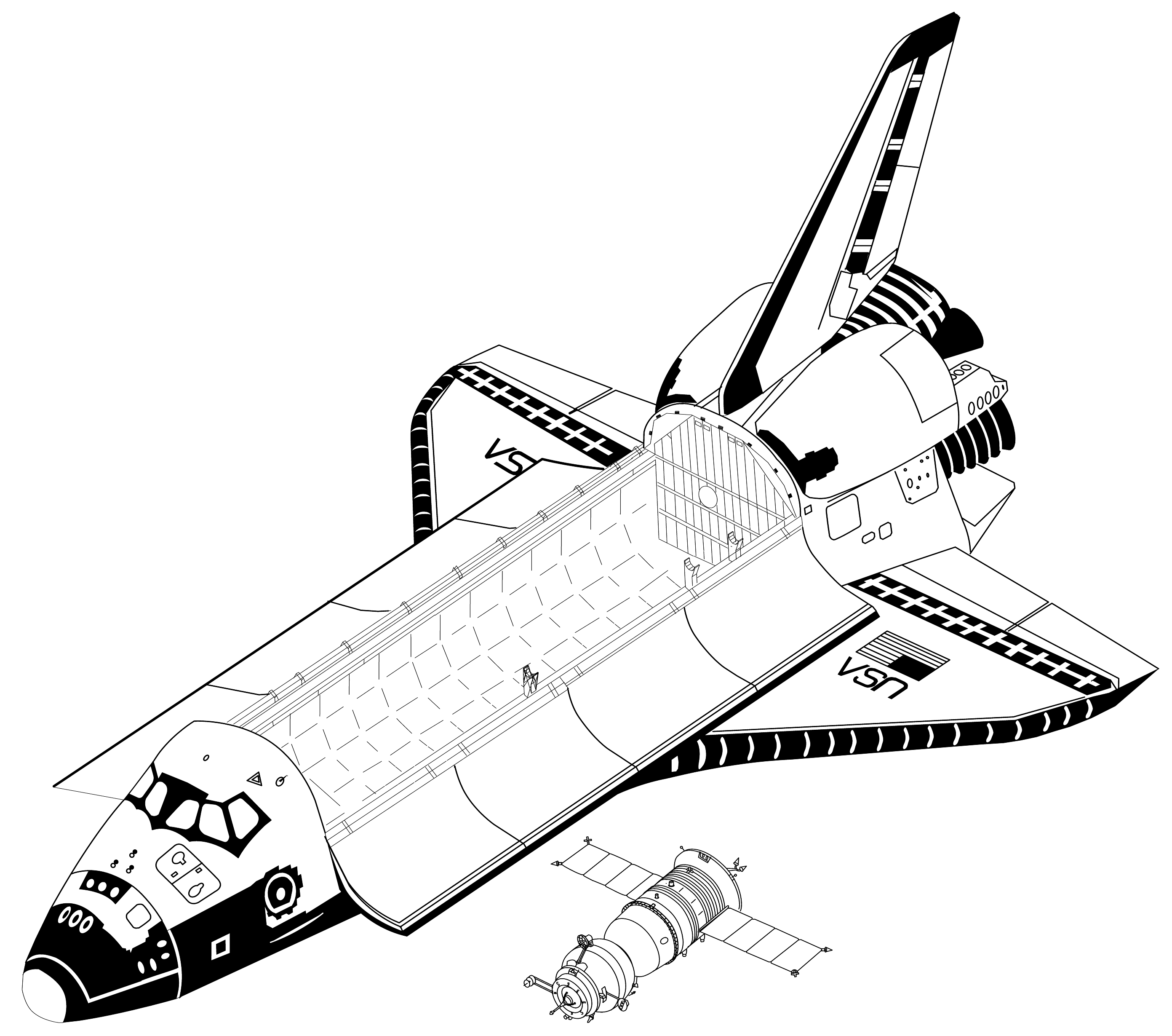 Space Shuttle Orbiter and Soyuz-TM (drawn to scale). Current spacecraft used by humans to travel in space.